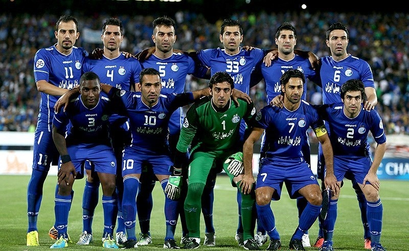 Group photographs of Esteghlal